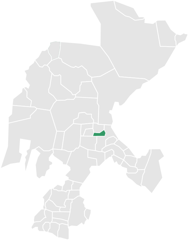 Map of the Municipality of Jeréz in Vetagrande, México.